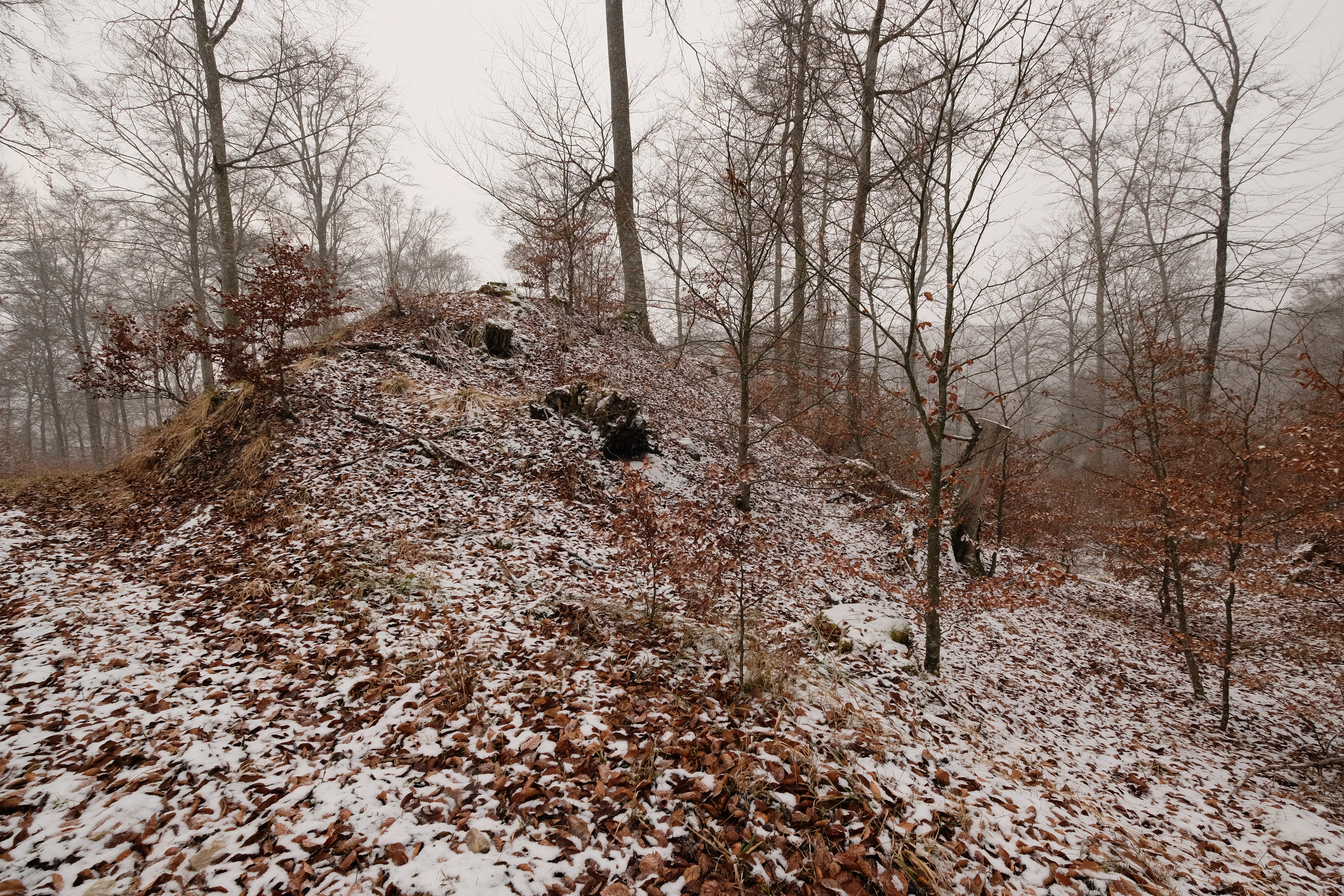 Demolished castle Ehrenburg, Geisingen, district Tuttlingen, Baden-Württemberg, Germany